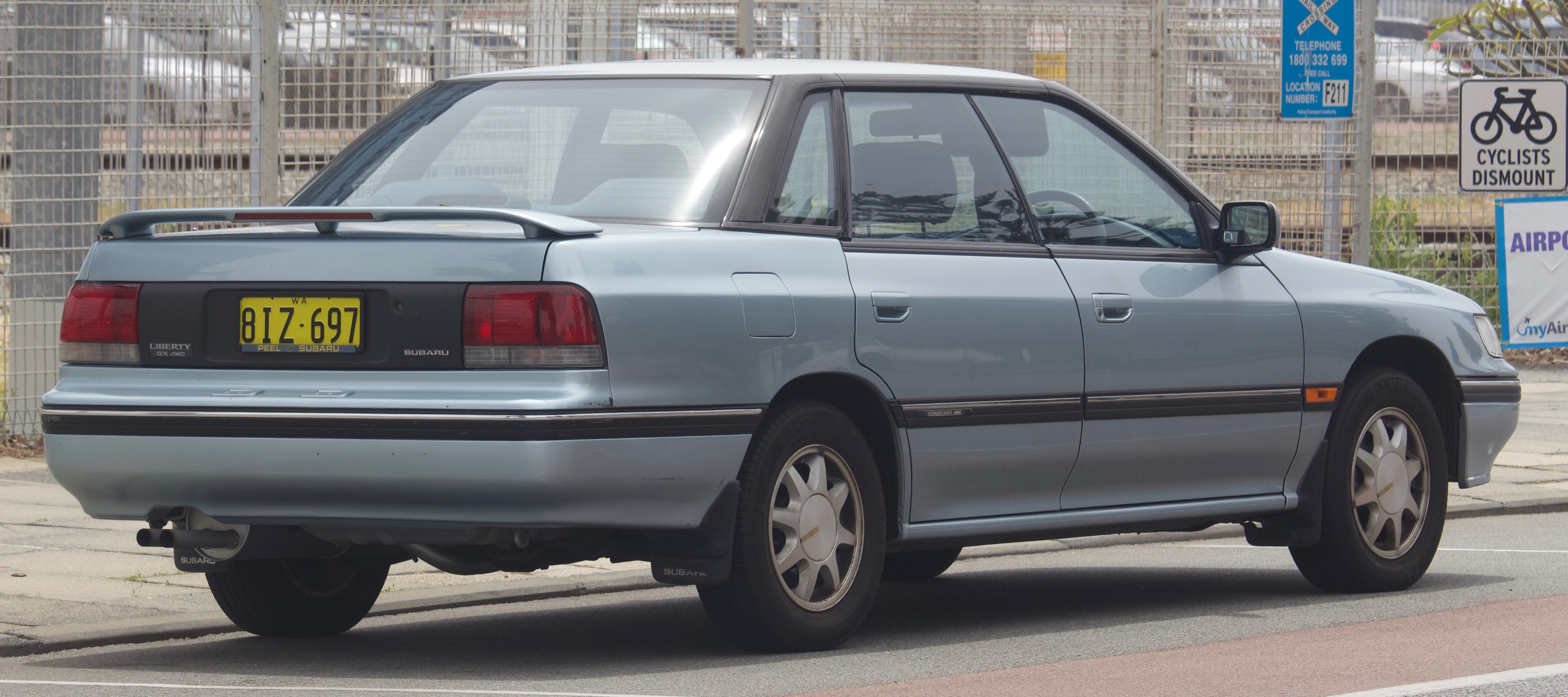 1991-1994 Subaru Liberty (BC7) GX 4WD sedan. Photographed in Fremantle, Western Australia, Australia.